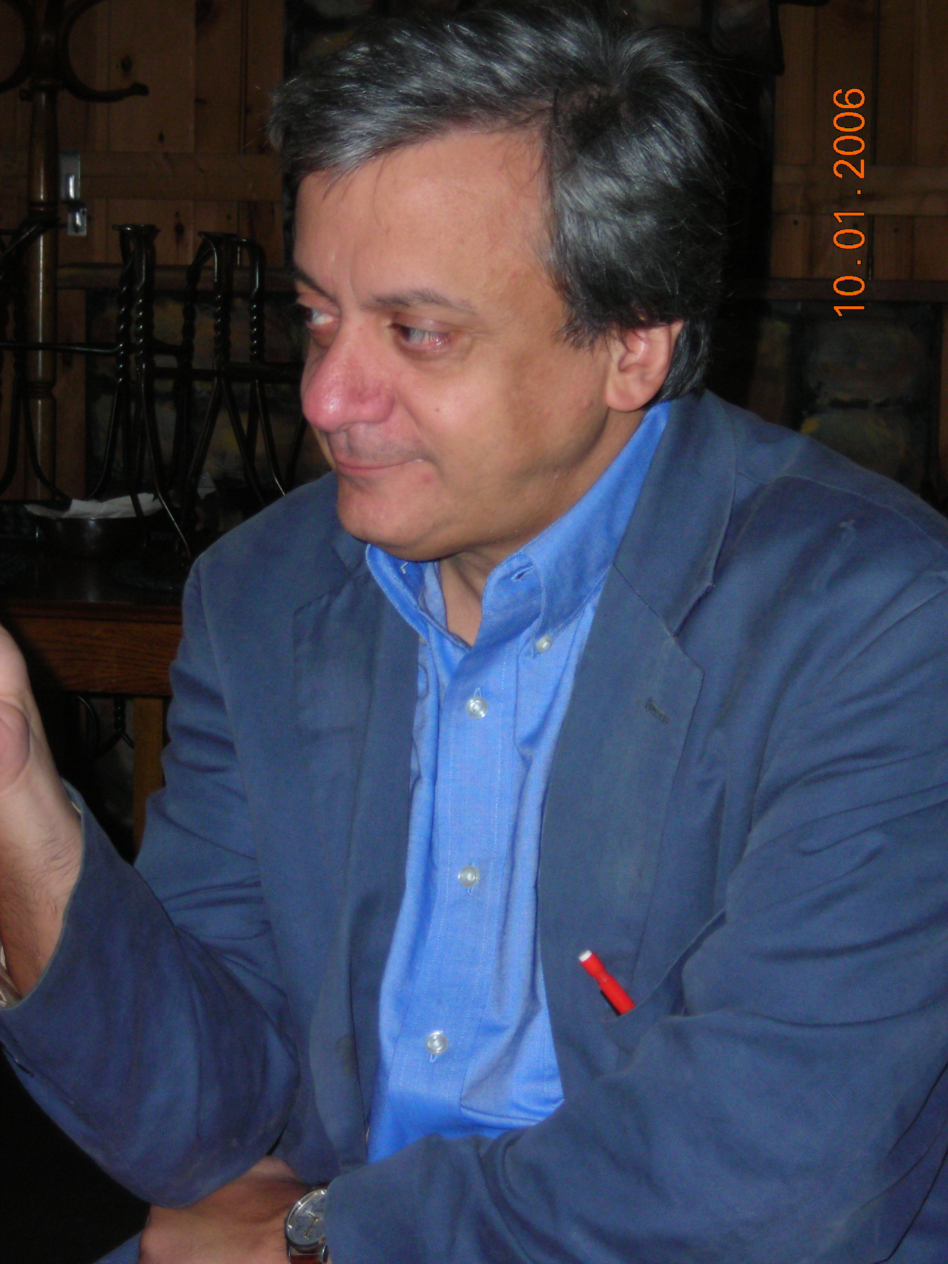 Photo by Sean Gilsdorf